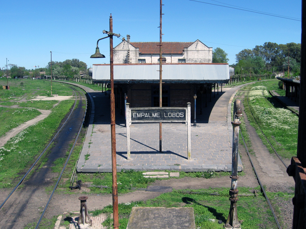 Empalme Lobos Train Station